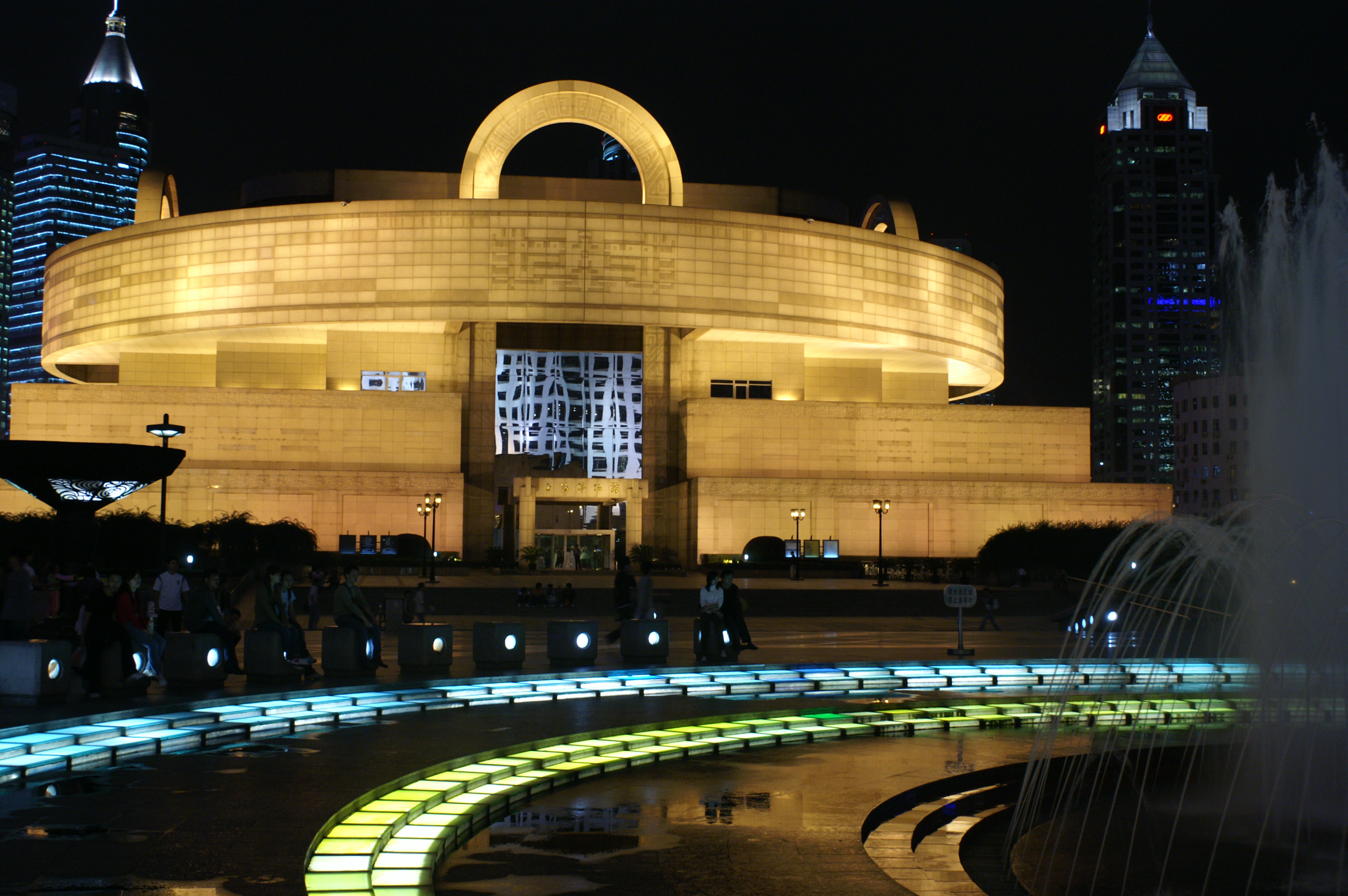 The Shanghai Museum at night